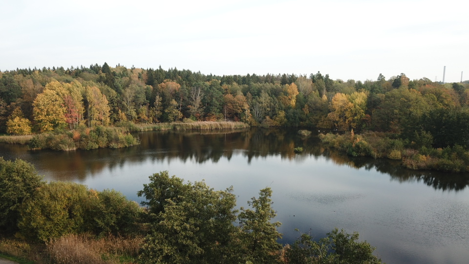 A picture of the small lake Lappkärret in Norra Djurgården in north-eastern Stockholm in Sweden.